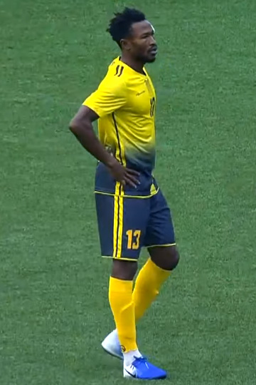 Issah Yakubu with Ahed against Akhaa Ahli Aley during the 2019-20 Lebanese Premier League season